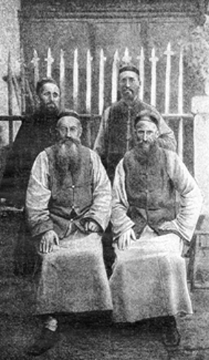 Four Westerners in Tatsienlu (Dartsedo in Tibetan transcription), 1890, photographed by Prince Henri d’Orléans. From left: Father Déjean, Bishop Félix Biet, the American Tibetologist W.W. Rockhill, Father Souliè